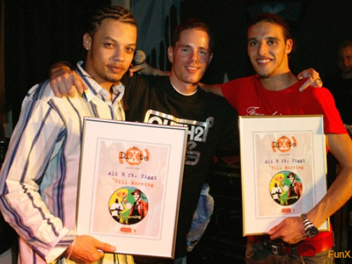 Picture of Q-Bah, Ali B en Ziggi